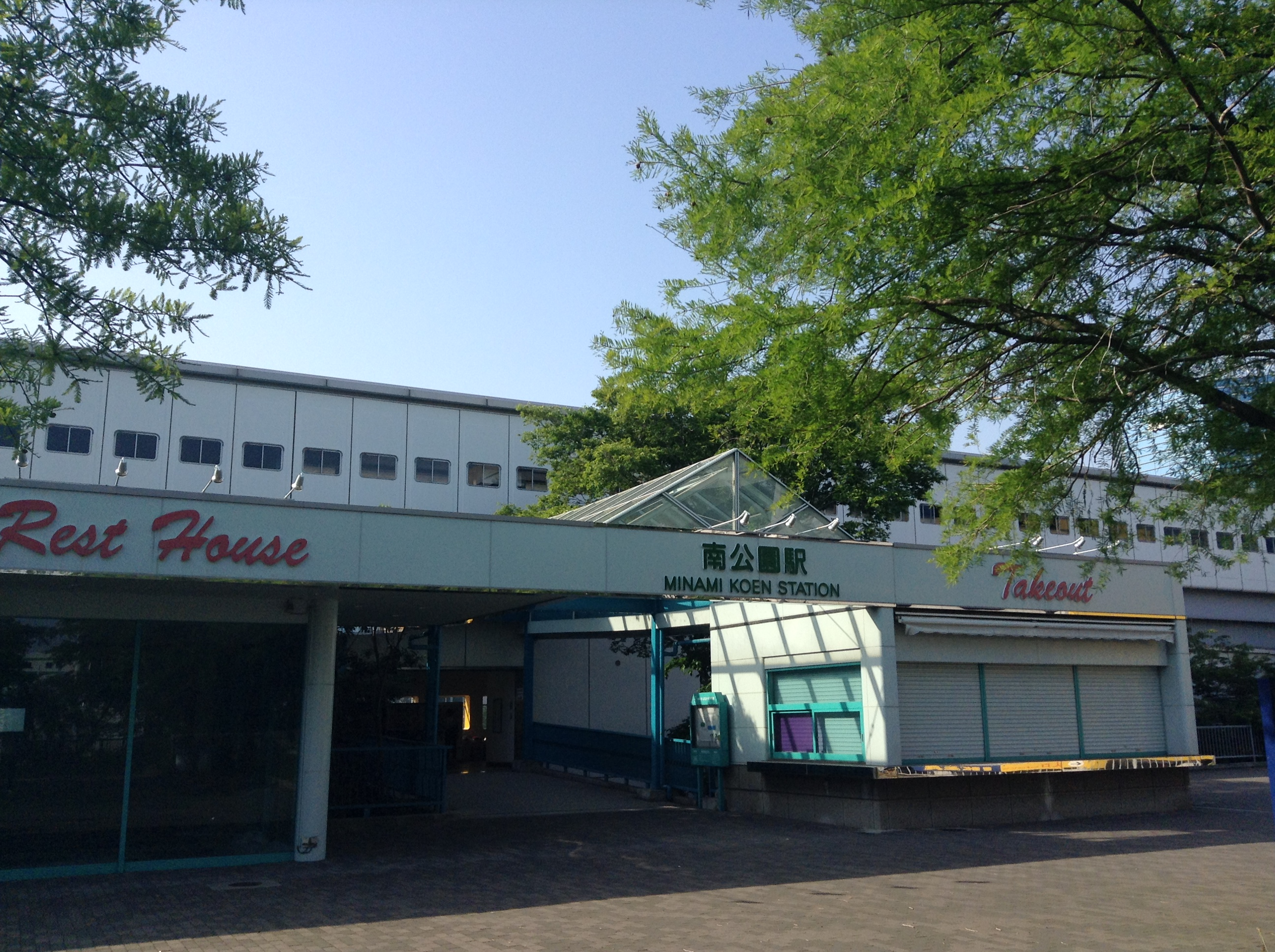 Port Island Line , Minami Koen Station.